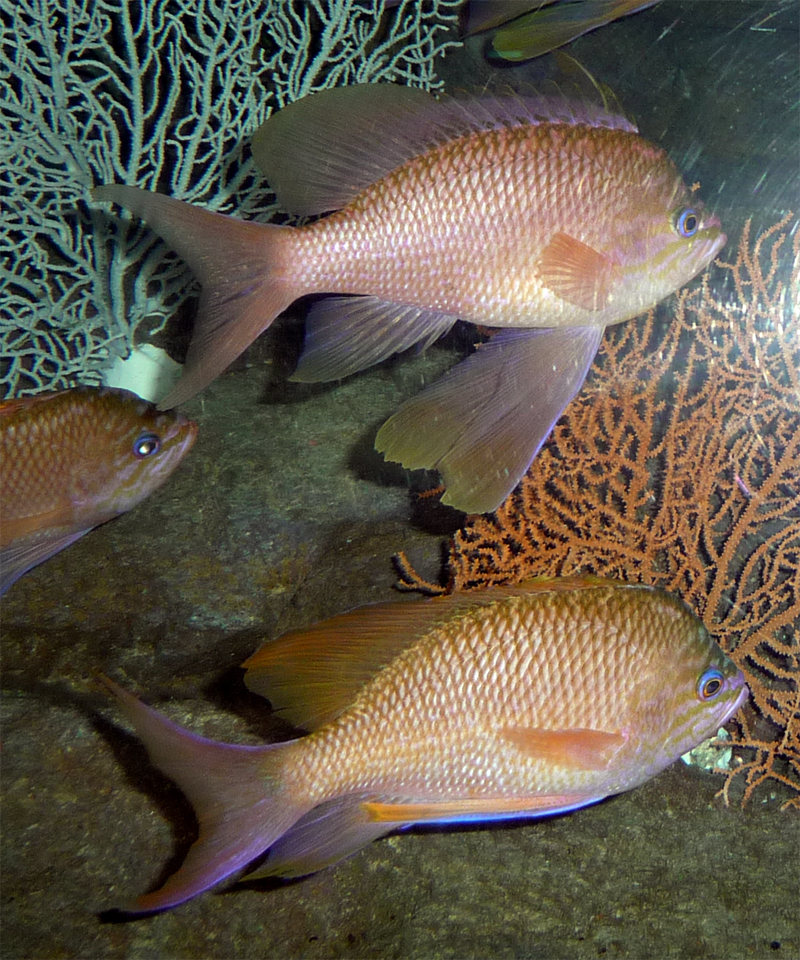 Anthias anthias